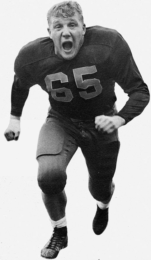 Pitt Panthers football All-American Joe Schmidt